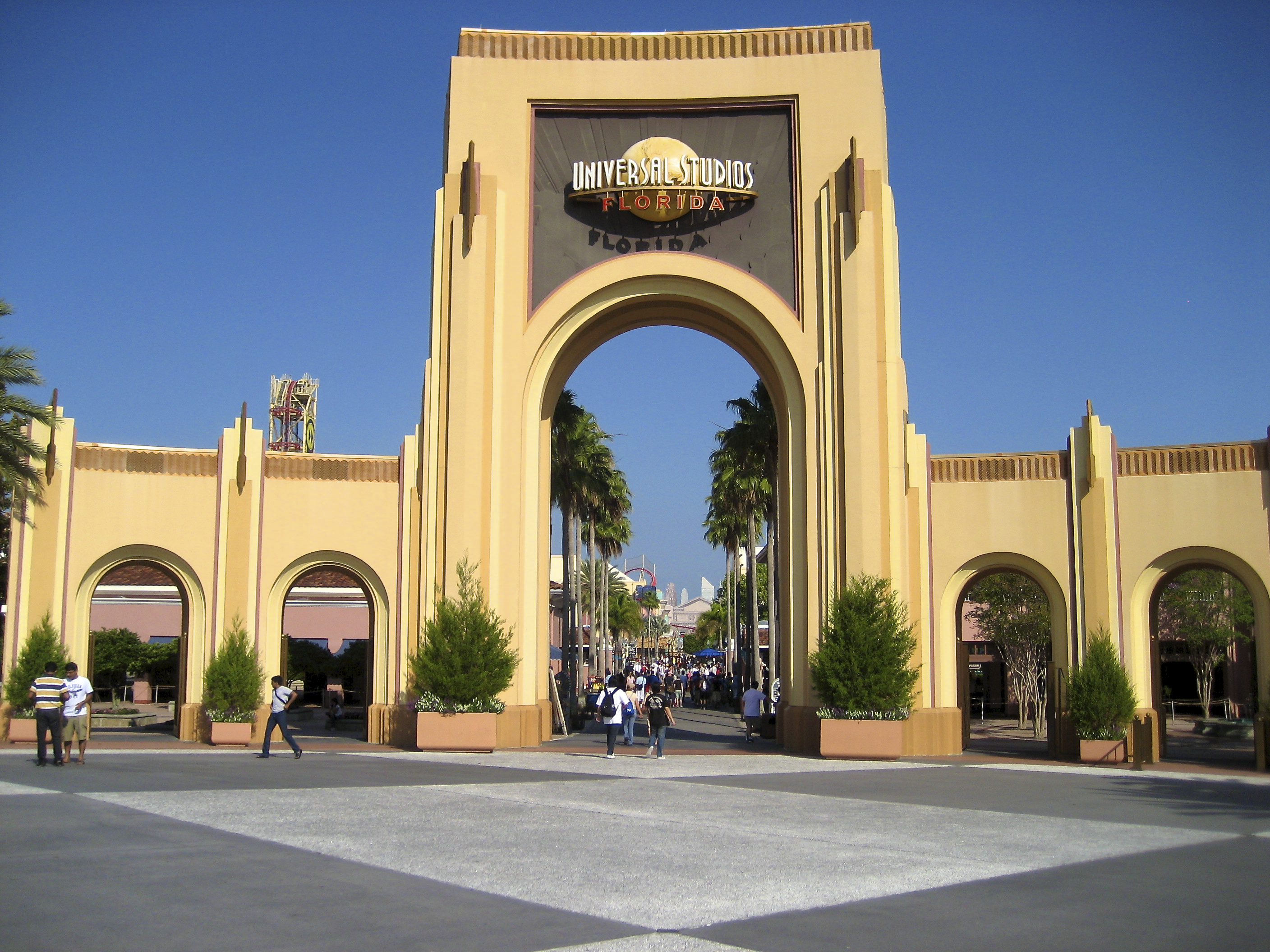 The entrance gate to Universal Studios Florida taken during park opening.